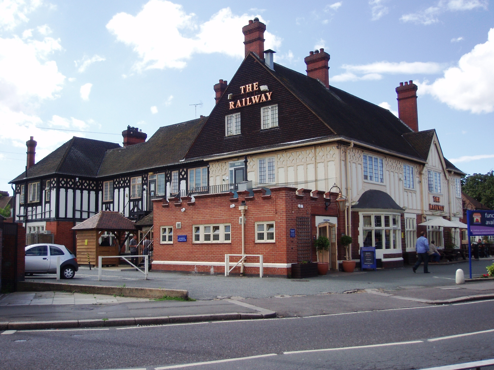 A decent pub/hotel by Hornchurch station. (View of interior.) (Photo of vegetarian burger.) Address: Station Lane. Owner: Mitchells and Butlers [Ember Inns] (website). Links: Randomness Guide to London Fancyapint Beer in the Evening